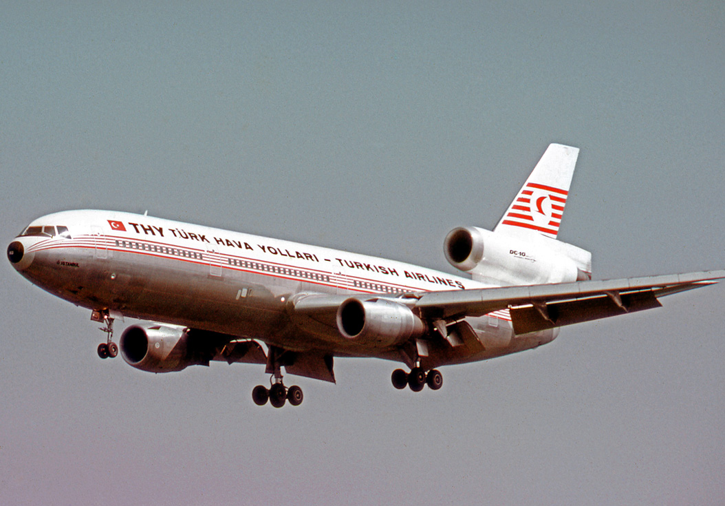 Douglas DC-10-10 TC-JAU of THY Turkish Airlines landing at Frankfurt Airport in 1974